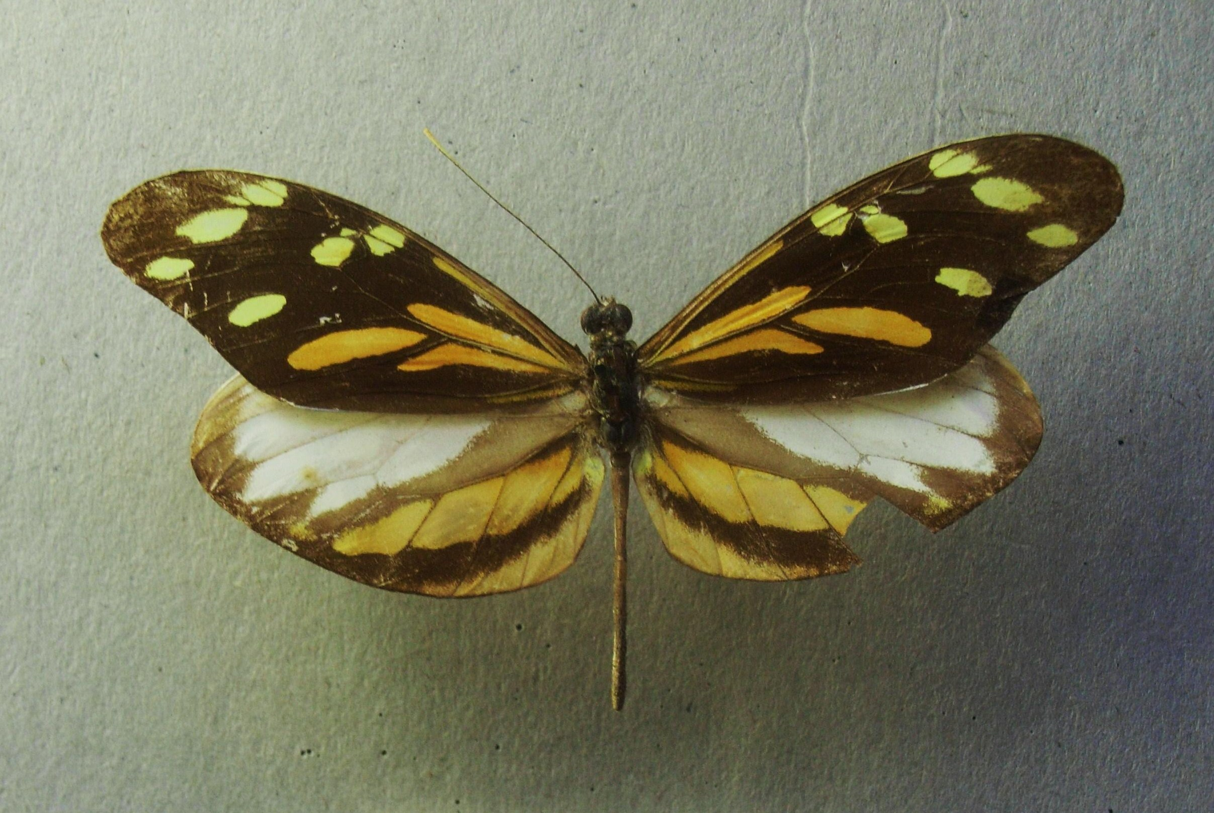 Dismorphia amphione praxinoe (Doubleday, 1844):Dismorphiinae:Pieridae